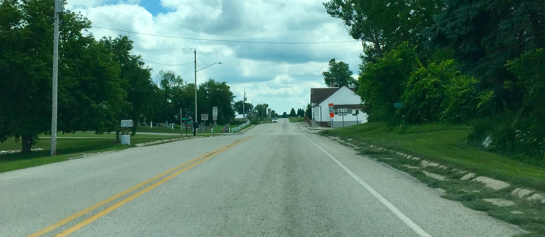 Looking southerly at Slovan, Wisconsin